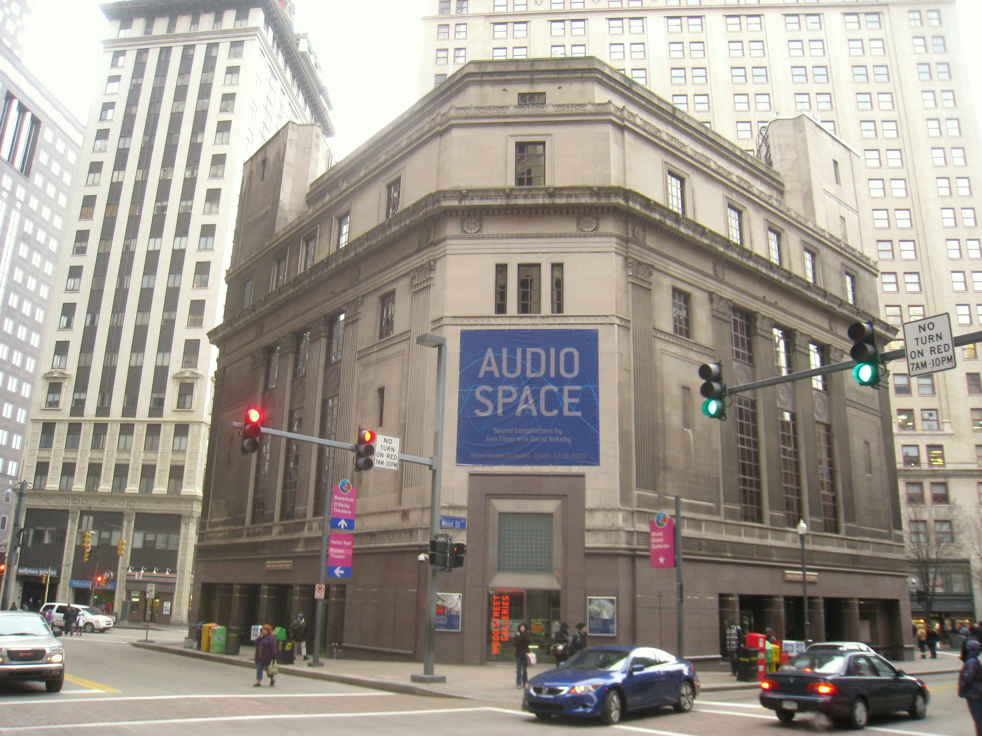 Wood Street Galleries, 601 Wood Street, Pittsburgh, Pennsylvania, USA.